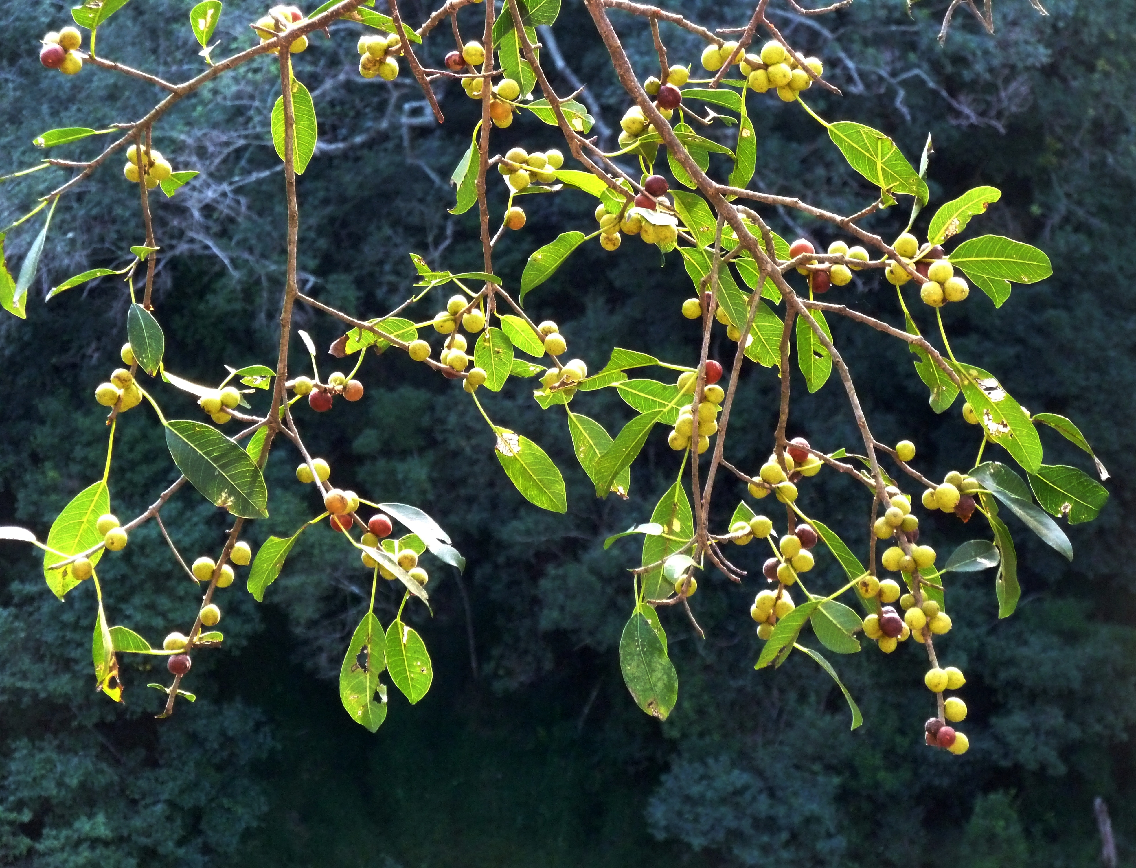 A fruiting Strangler/Forest fig in the Krantzkloof Nature Reserve, KwaZulu-Natal. It is distinguished from F. natalensis mainly by the sessile figs, but also by the obovate leaves that have 5-11 principal lateral veins. In both species the figs are axillary on the terminal branchlets, and become yellowish red when ripe.